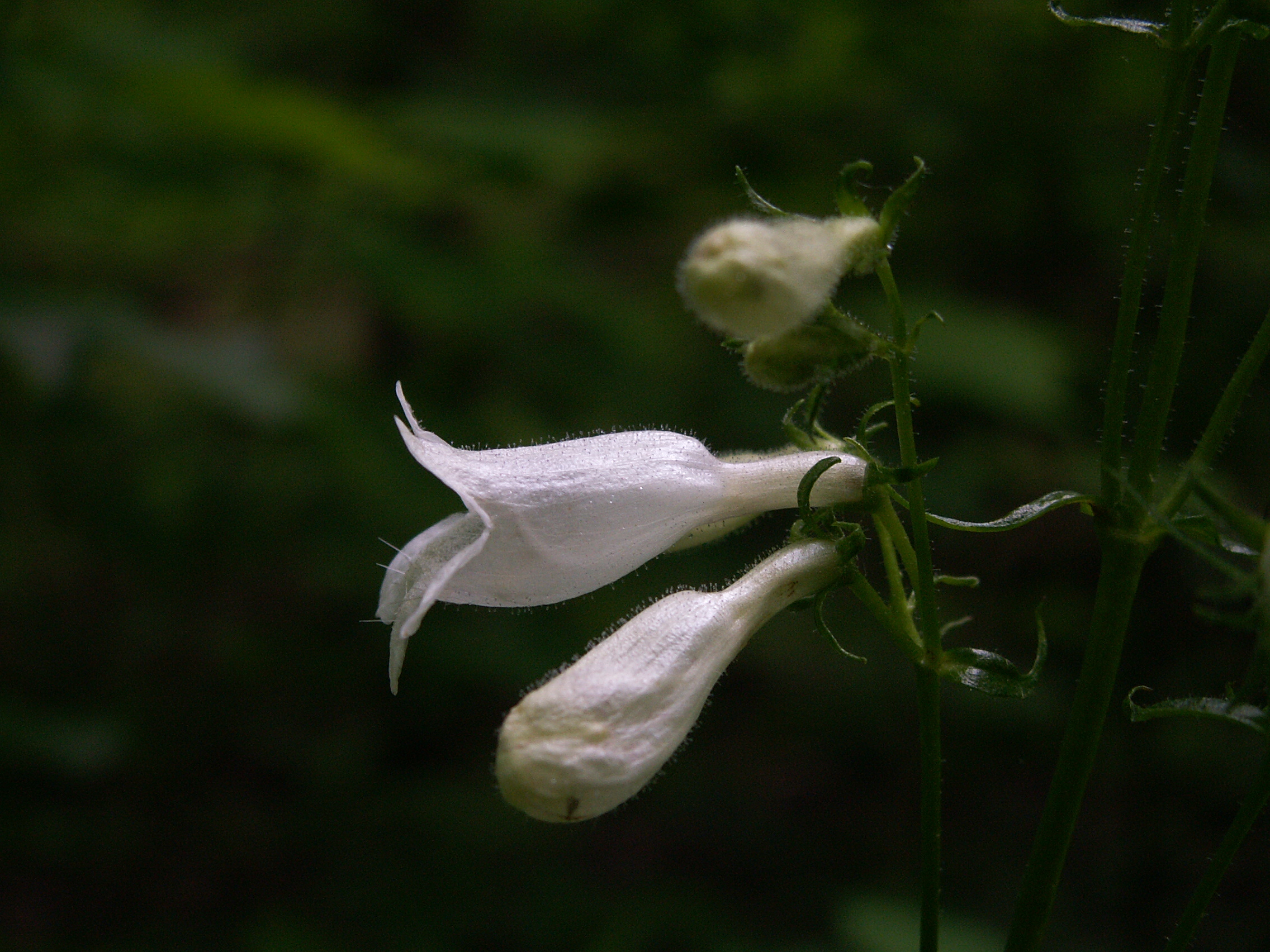 Close-up of a Penstemon digitalis flower blooming in Schenley Park, Pitsburgh